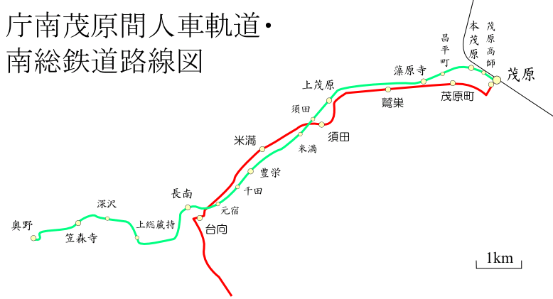 Route map of Nanso Railway（南総鉄道）.